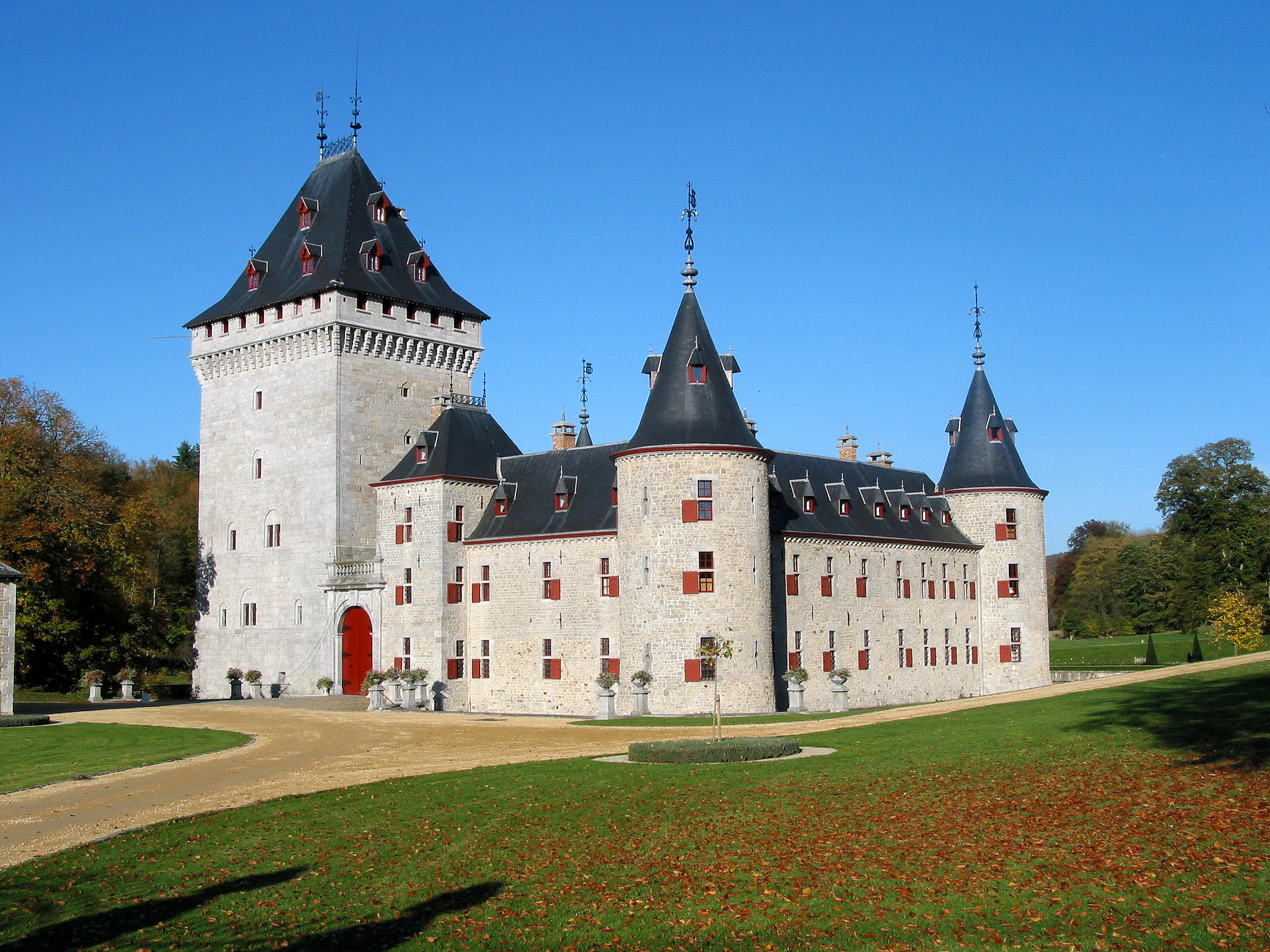 Hargimont (Belgium) : the Jemeppe Castle (XVIth century) and its keep (XIIIth century).